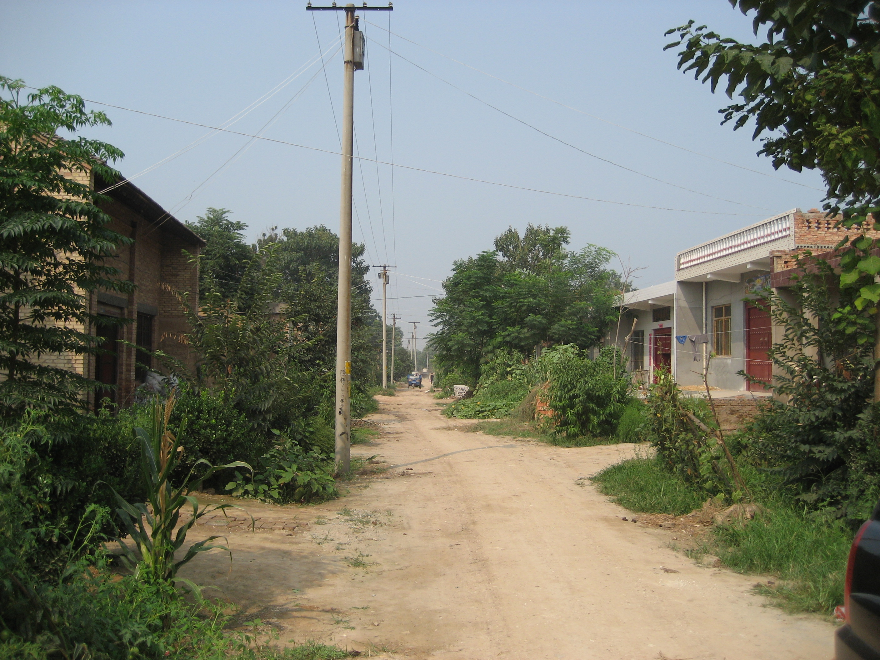 The Shaanxi province is located in the region of Northwest China. The project location is mainly situated on the Loess plateau and is dominated by agriculture. The main products are grain, fruits, tobacco, cotton and vegetables. The soil is fertile, but the climate is semi-arid with rainfalls less than 600mm per year. The winters are very cold with temperatures averaging less than 0°C in January and hot summers with average temperatures of 26°C in July. Shaanxi has the lowest gross domestic product (GDP) of all provinces and especially in the small villages the income is very low. The visited project site is in Pucheng County, which is about 120 km Northeast of Xi’an, Shaanxi, China. Photo by P. Feiereisen in August 2009.